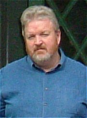 Dave Anderson MP outside his Blaydon office.